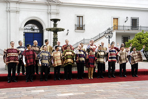 SANTIAGO, CHILE. The official picture making of the leaders of the APEC countries.